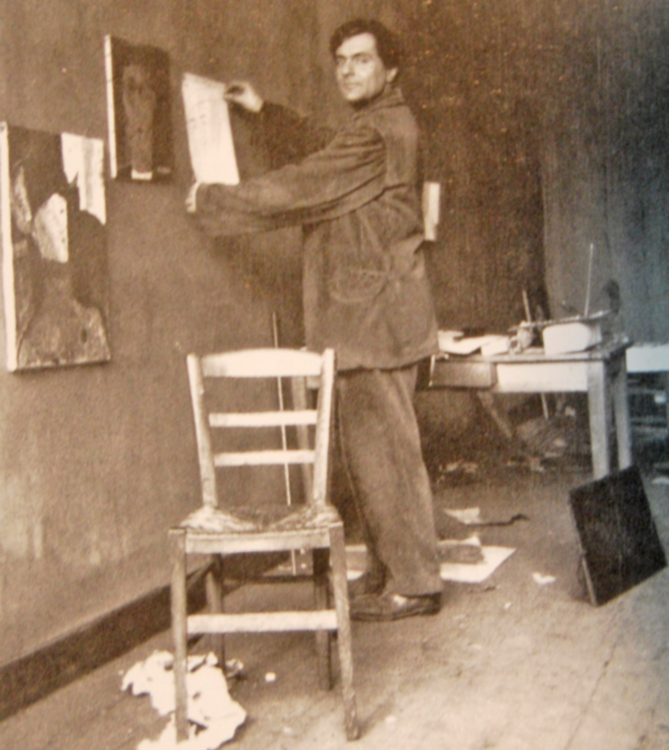 Amedeo Modigliani at his studio in Paris Ca. 1915, Photo by Paul Guilliaume. Beatrice hastings and Raimond portraits can be seen.